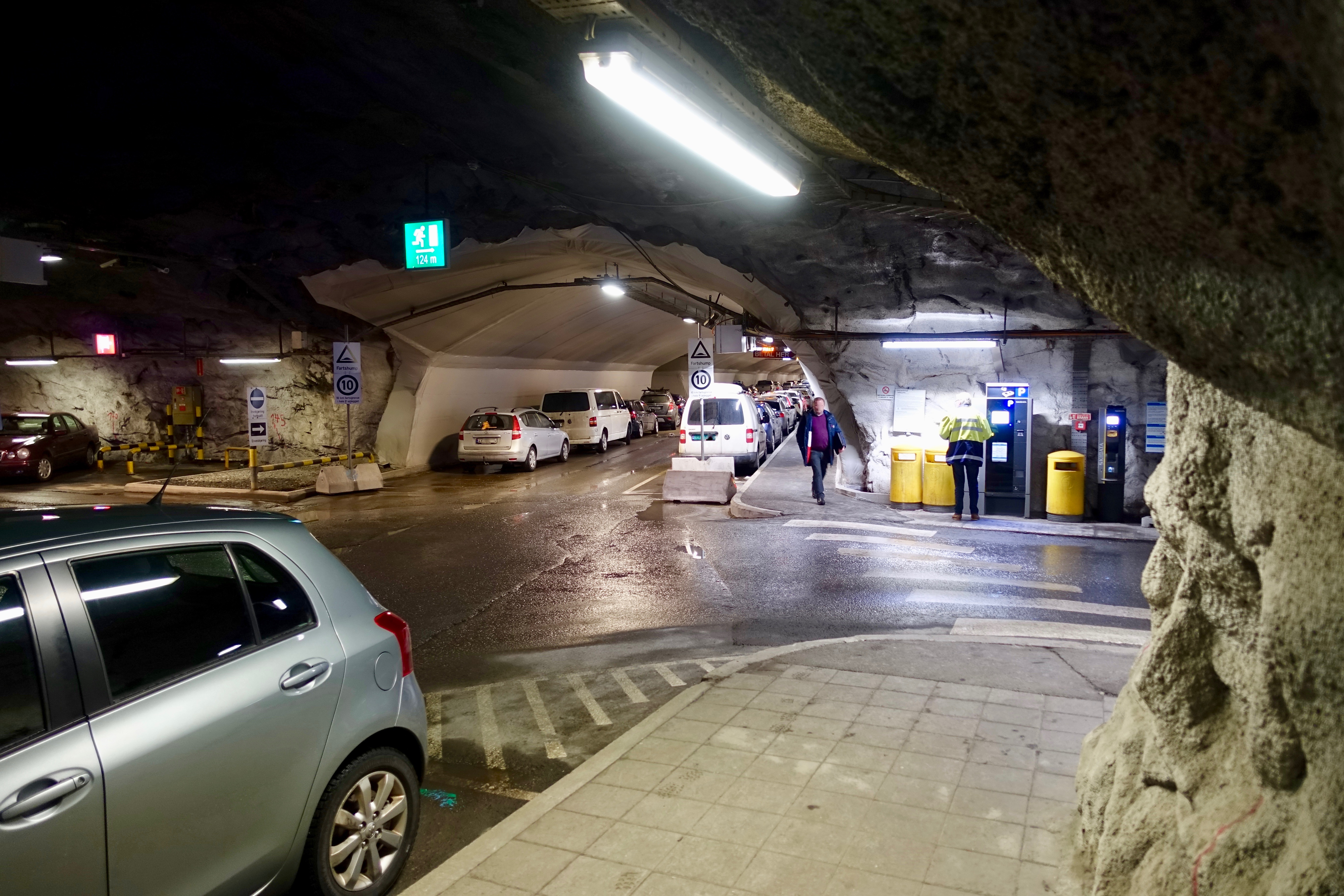 Interior of Tromsø Parkering's Fjellet P-hus/parkeringshus (aka "parkeringstunnelen"), a parking underground structure shaped like a road tunnel, located in Tromsø, Norway. This indoor car park spans beneath most of the city centre. The facility uses an automated barrier system. Photo taken on 2019-04-02